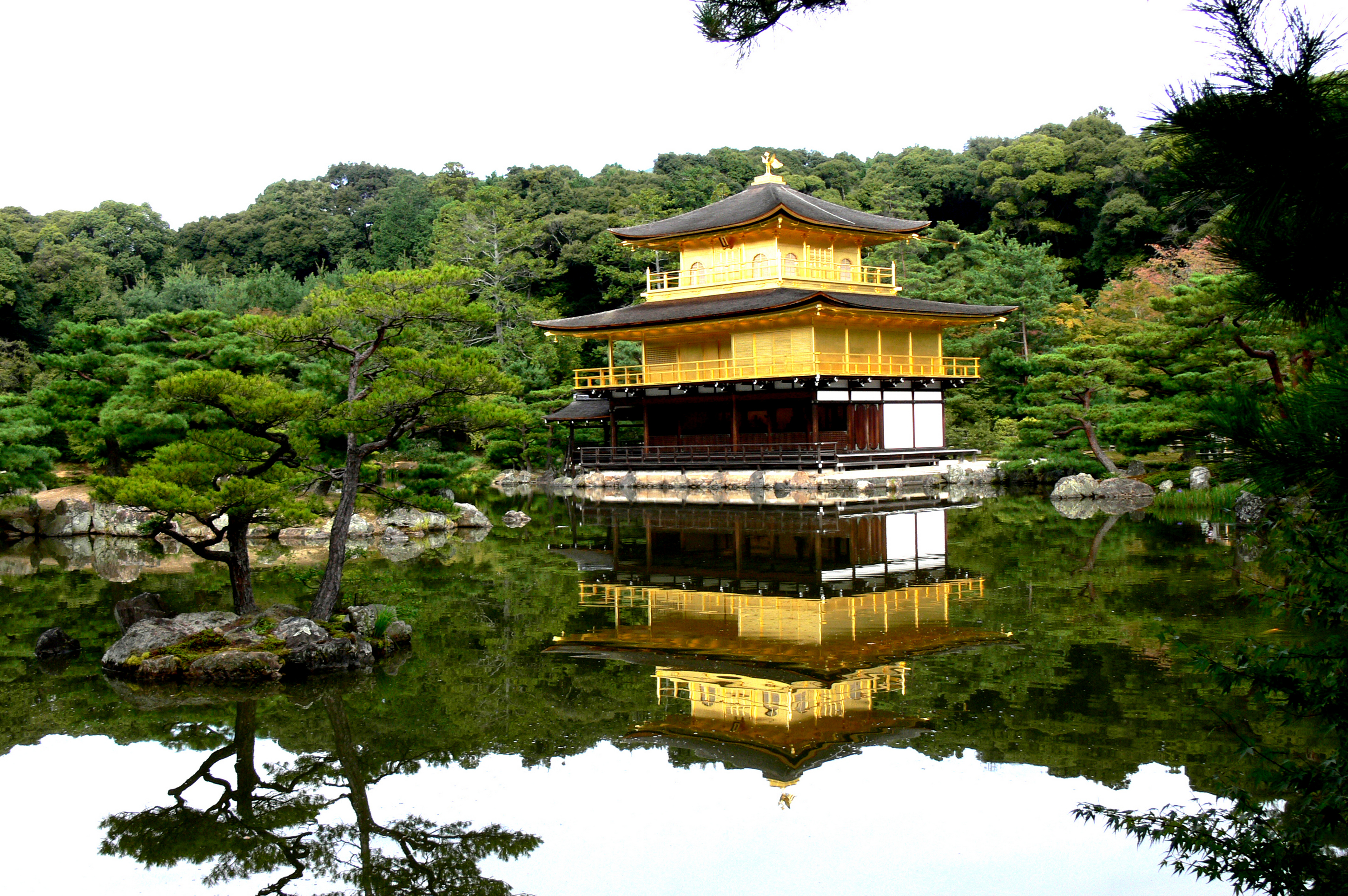 Kinkakuji Kyoto